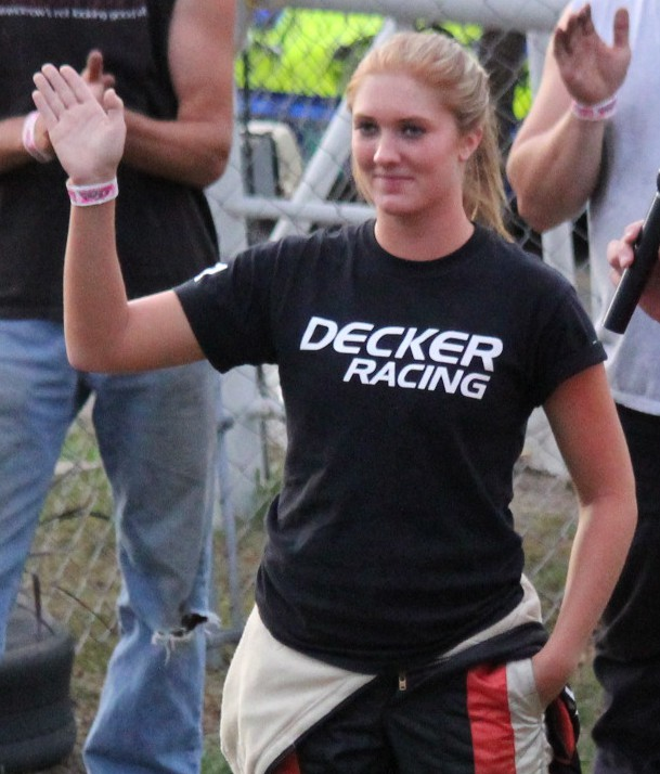 NASCAR driver Paige Decker waves to the crowd as she was announced as the fastest qualifier in the late model class at Golden Sands Speedway.